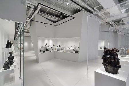 Interior of the Museum of Inuit Art in Toronto, Canada.